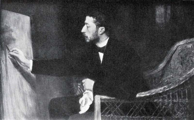 Prince Eugen of Sweden and Norway at work as an artist, painted by Oscar Björck [1]